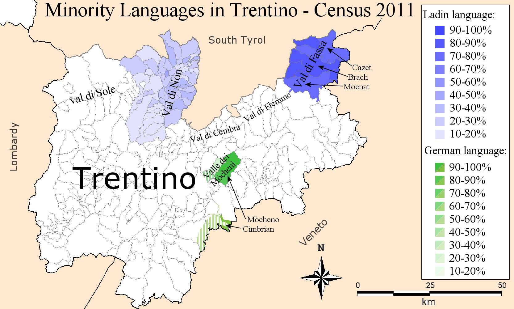 Map of Trentino with language distribution based on census data from 2011. Colors: German minorities: green: Mocheno lime-green: Cimbrian blue: Ladin and semi-ladin minorities (fassan and noneso) white: minorities below 10%